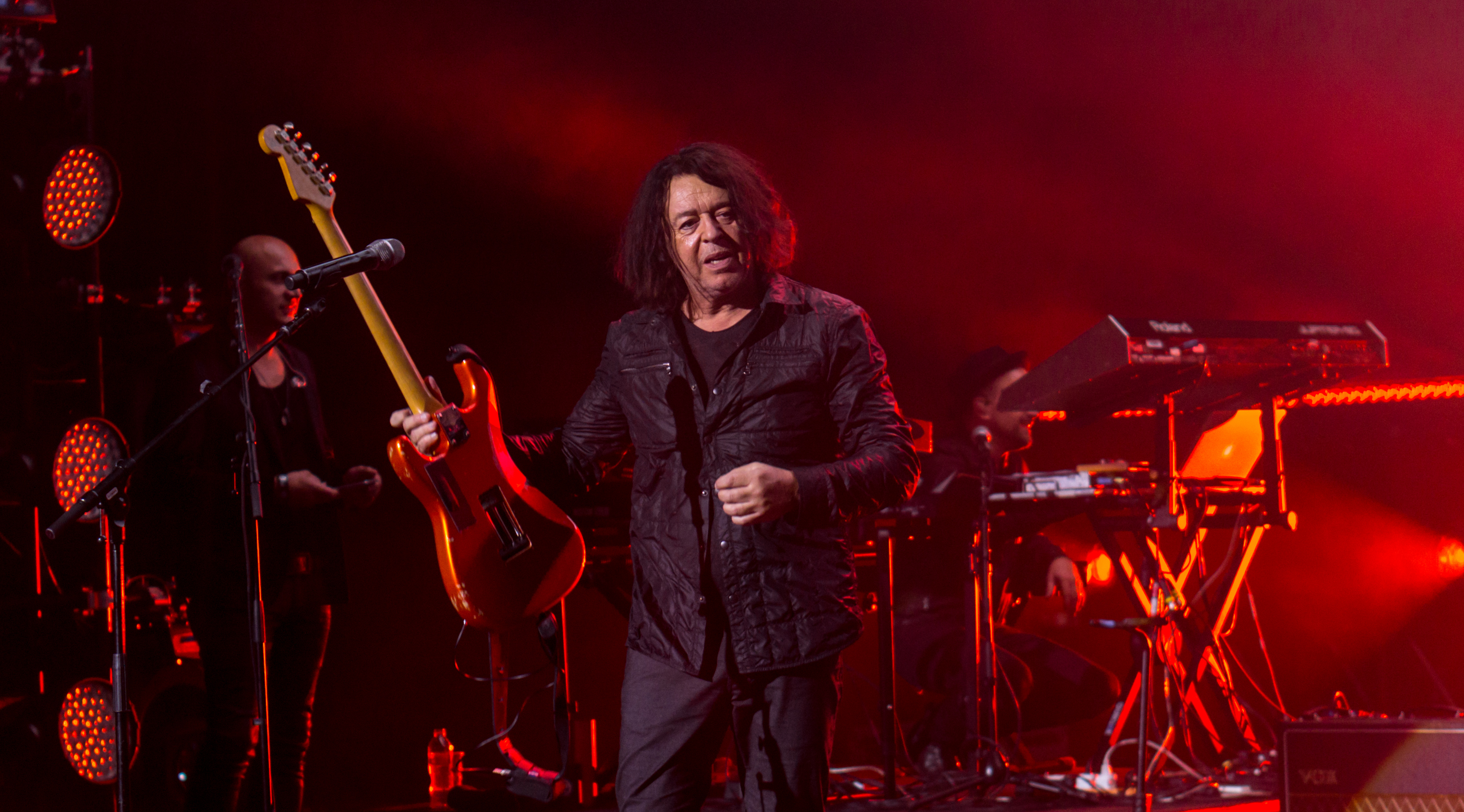 TearsFearsRAH271017-48